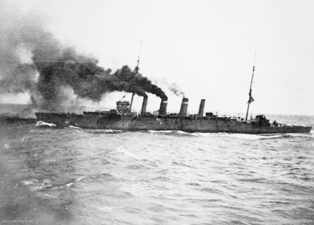 AWM caption : "The light cruiser HMAS Sydney steams towards Rabaul. The Australian Naval & Military Expeditionary Force (AN&MEF), which included HMAS Sydney, HMAS Australia, HMAS Encounter, HMAS Warrego, HMAS Yarra and HMAS Parramatta, seized control of German New Guinea on 11 September 1914".